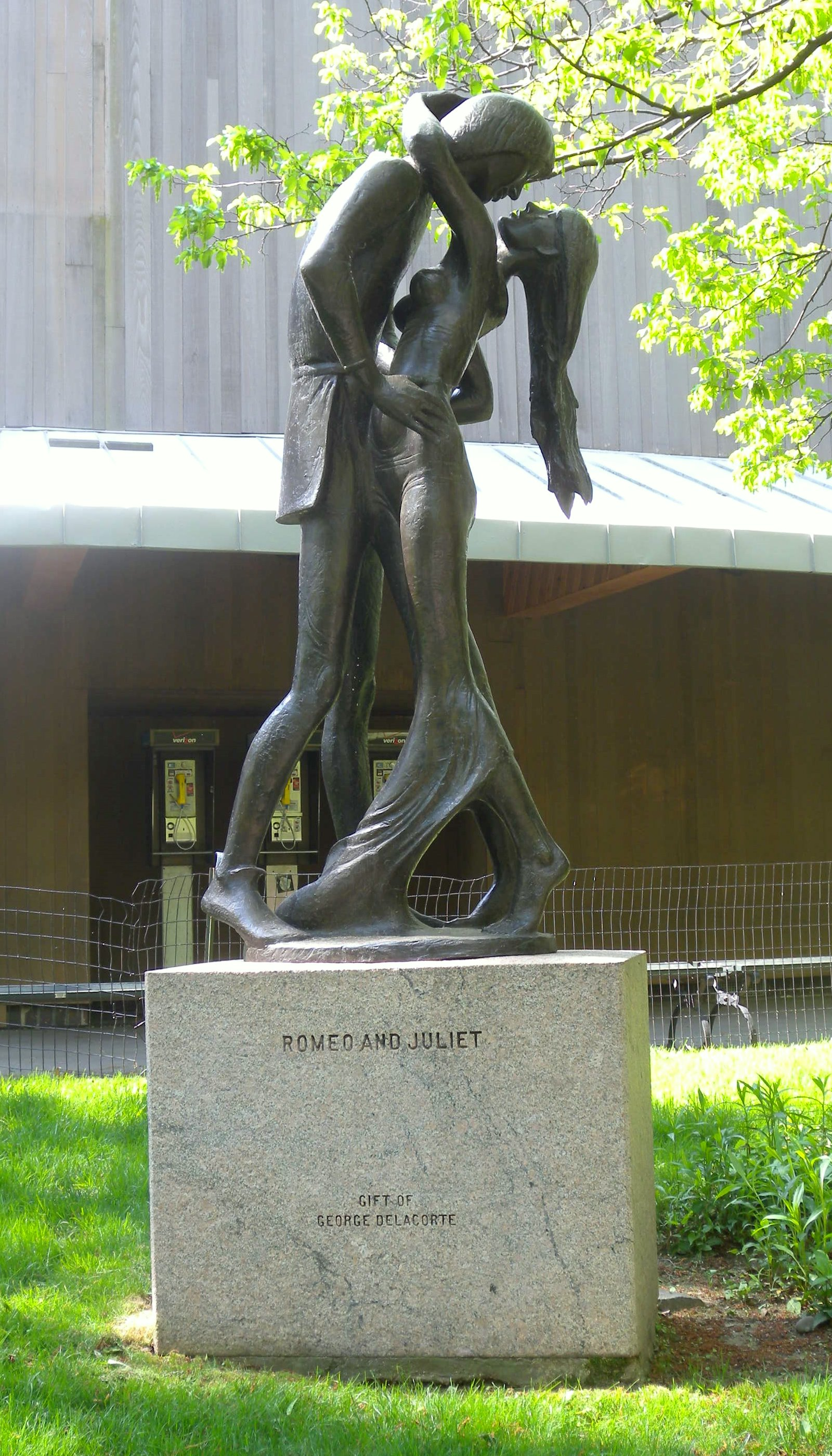 Looking south at statue outside Delacort Theater (approx C80) on a sunny late morning.